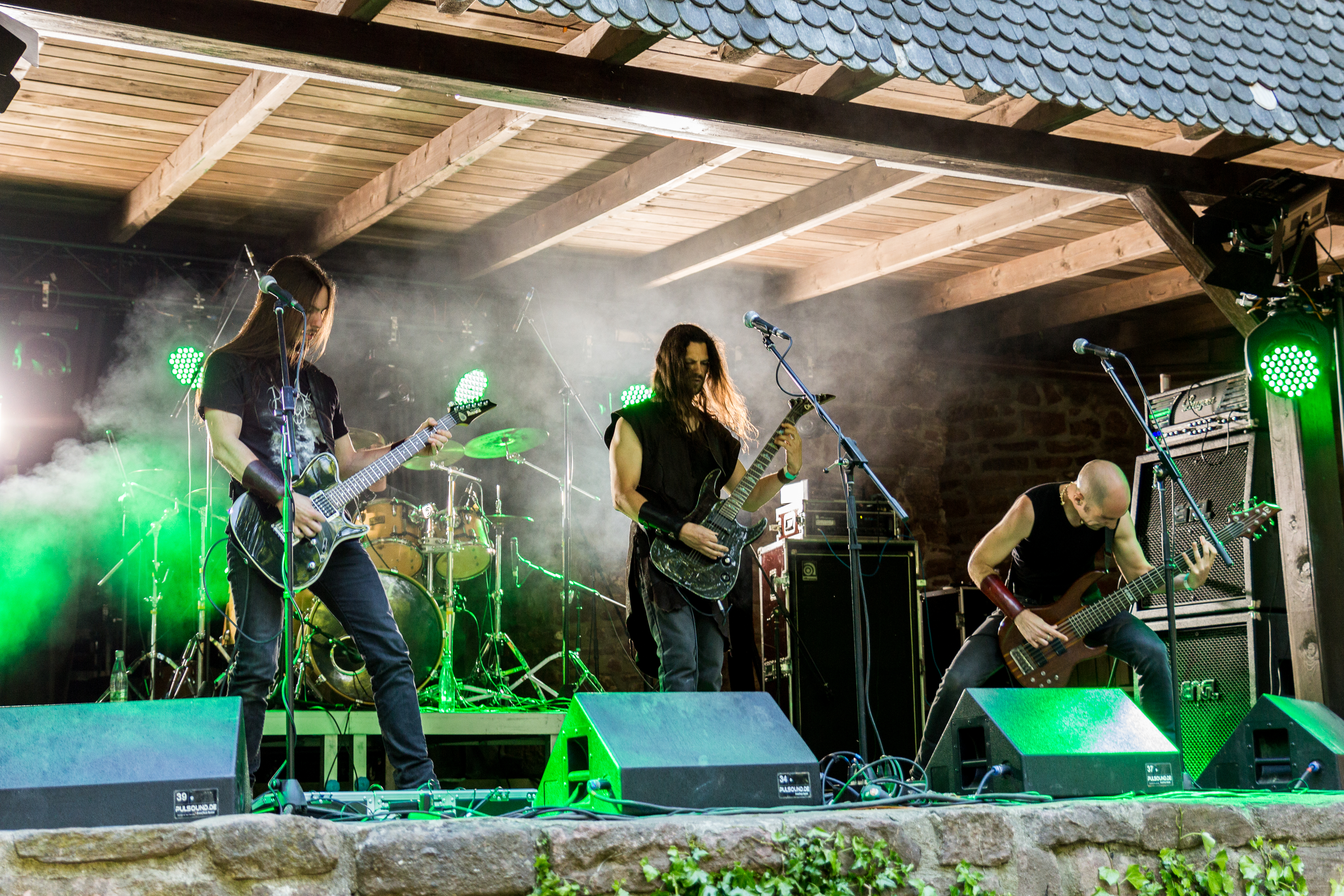 The French Black metal band Belenos at the Dark Troll Open Air 2017 in Bornstedt/Germany.